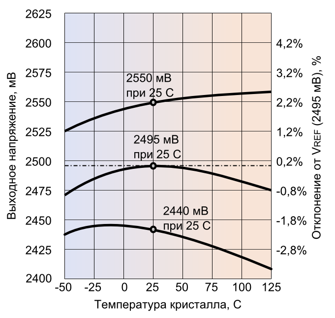 Median and worst-case curves for the TL431 bandgap reference.